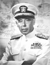 Admiral DeWitt Clinton Ramsey.